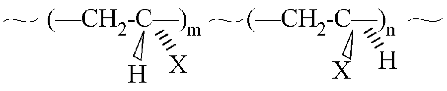 Illustration of a stereopolymer